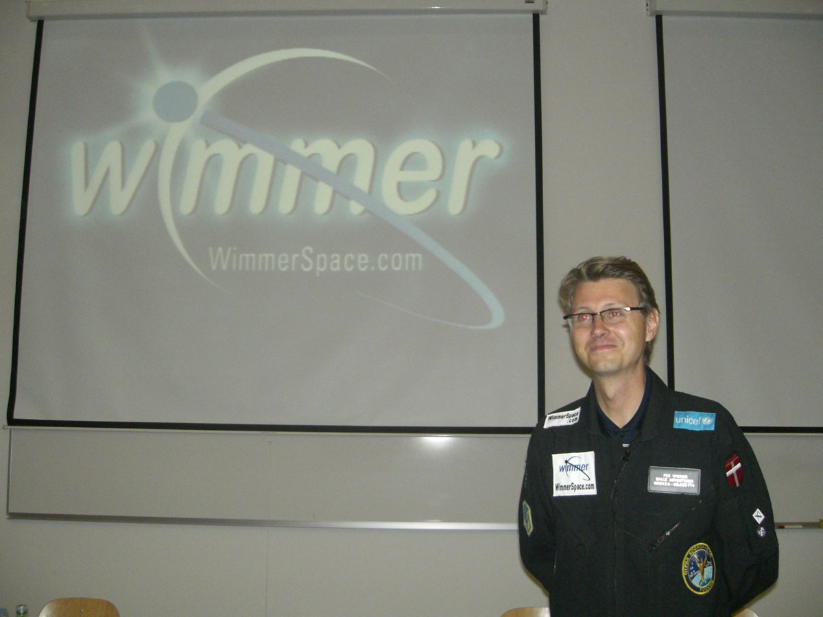 Per Wimmer talking to kids at Dalmatian Space Summer ( in Split, Croatia